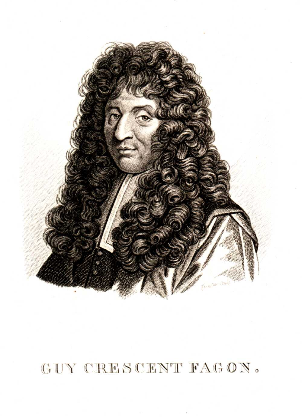 Guy-Crescent Fagon (1638-1718), French physician and botanist, Sheet: 20 x 12.5 cm